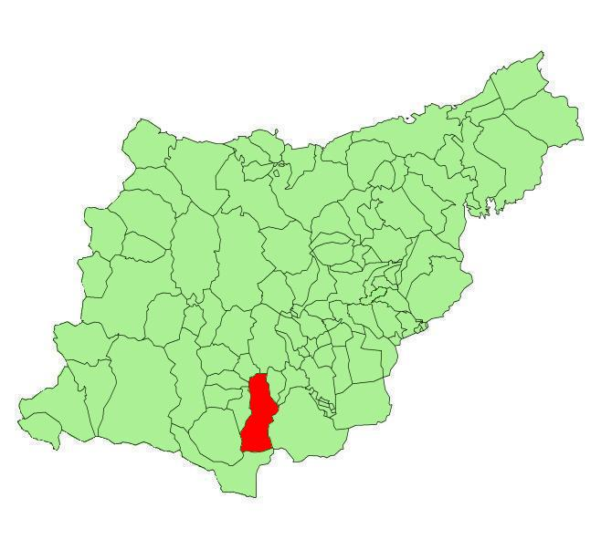 Idiazabal municipality in the province of Guipuzcoa